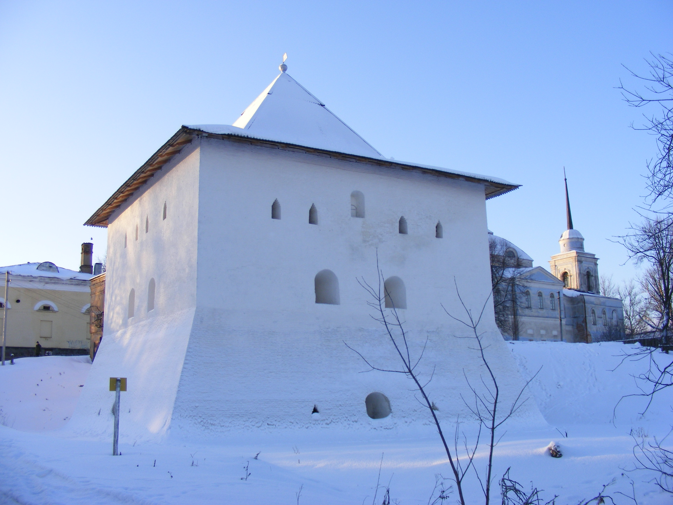 Winter view of the Spasskaya tower in Vyazma, Russia.